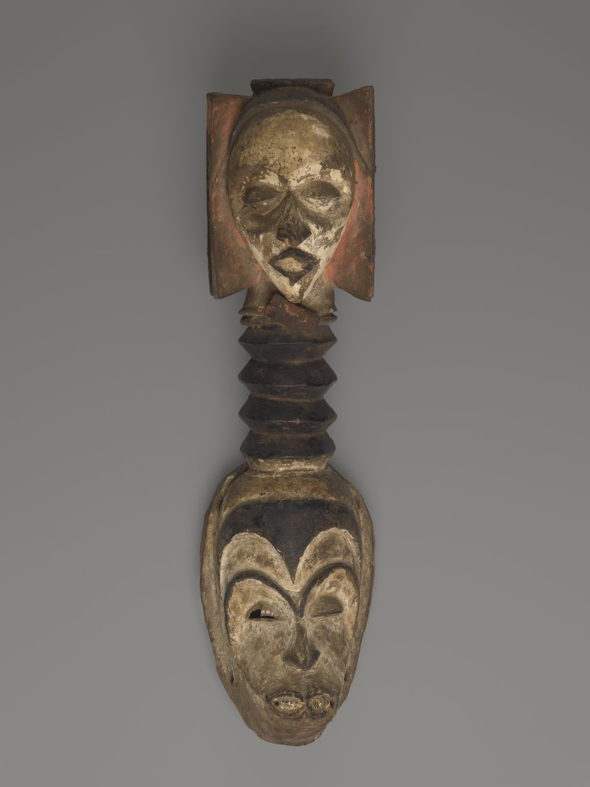 Face mask surmounted by a janus-faced sculpture on a column of four circular, double trapezoid forms, on a metal stand that runs through a hole below the chin of the lower face. Holes for raffia attachment are on either side of the lower face. The lower face, predominantly in white pigment, has a prognathic jaw and a mouth in a bowtie form, containing two rows of teeth. An arrow-shaped nose projects below a brow and hairline composed through two rows of half-heart forms, in black pigment. Slits for viewing are carved into raised, slightly drooping eyes. The upper, frontal face is ovoid in form, colored with white pigment, and is framed by a black coiffure and two red attenuated wings, with holes for further attachments. The face has a diamond-shaped mouth, a curved, projecting nose and coffee-bean style, nearly closed eyes in rounded depressions. The reverse face is treated similarly, but covered in black pigment. A conical form, carved separately, is attached below the chin of the upper front and back faces. Condition: good. Loss to right eyelid of lower face. Pigment fading/loss throughout.